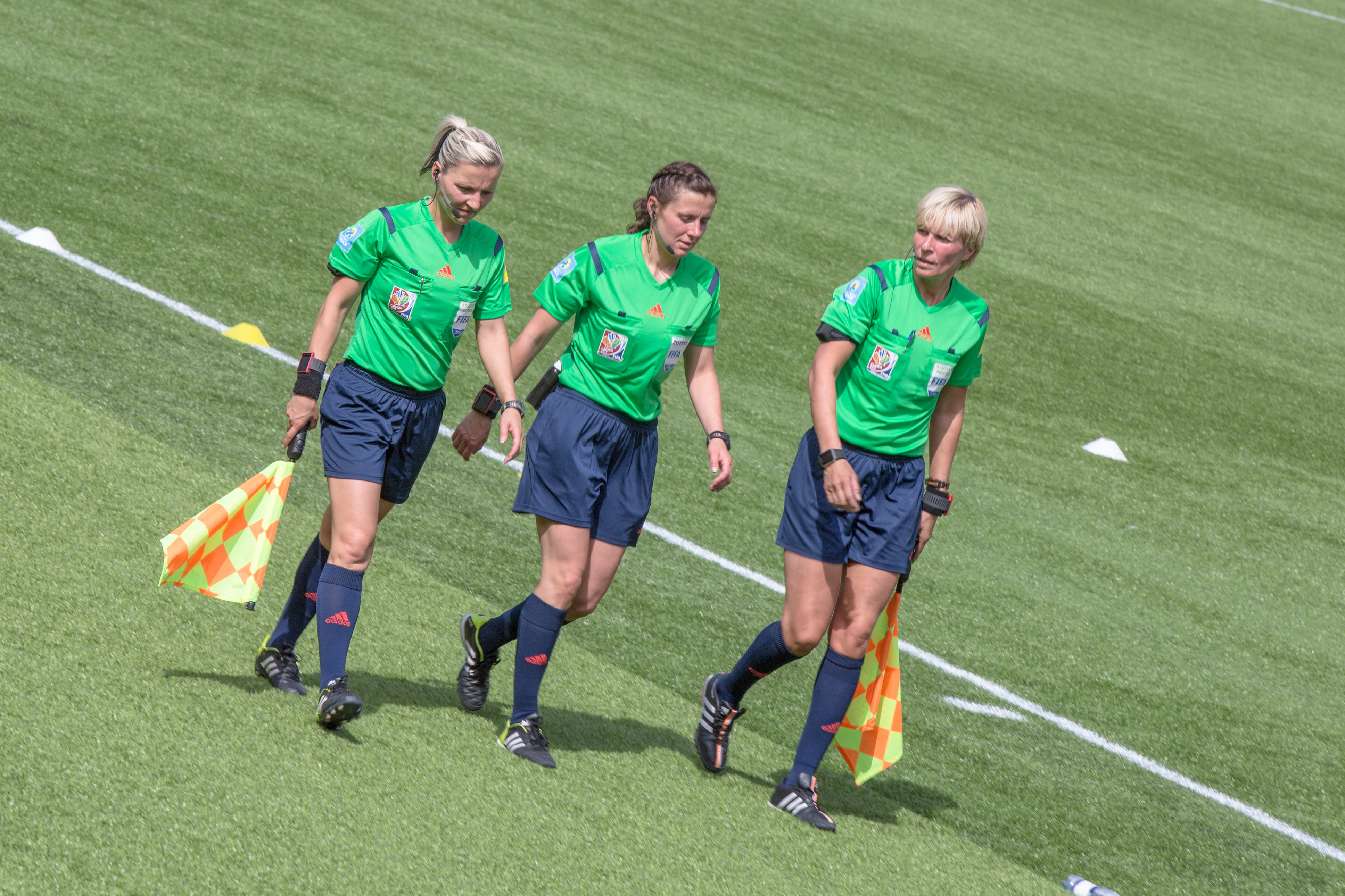 The 2015 FIFA Women's World Cup is the seventh FIFA Women's World Cup, the quadrennial international women's football world championship tournament. The tournament will be held from 6 June to 5 July 2015. Japan vs Australia Match Highlights